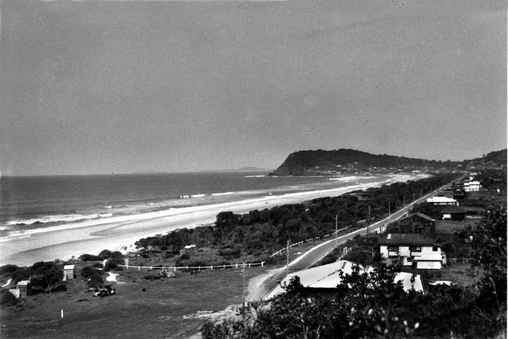 Panoramic view of the beach at Burleigh Heads on the Gold Coast, ca. 1940. Panoramic view of Burleigh Heads, showing the beach, the Esplanade and beachside homes, ca. 1940. Burleigh Head National Park can be seen jutting into the sea in the background.